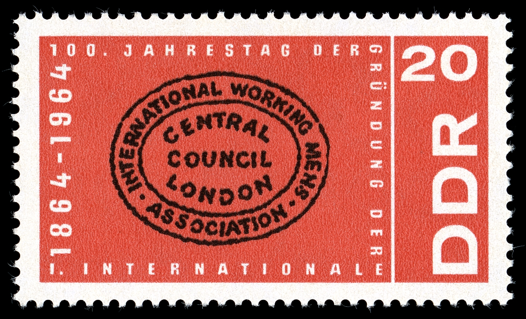 GDR stamp showing International Working Men's Association logo